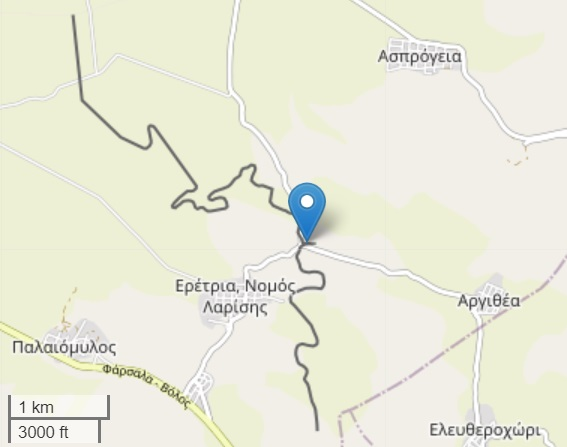 Rigeo-Eretria Railway (Ρήγαιο-Ερέτρια Λάρισας) - OpenStreetMap